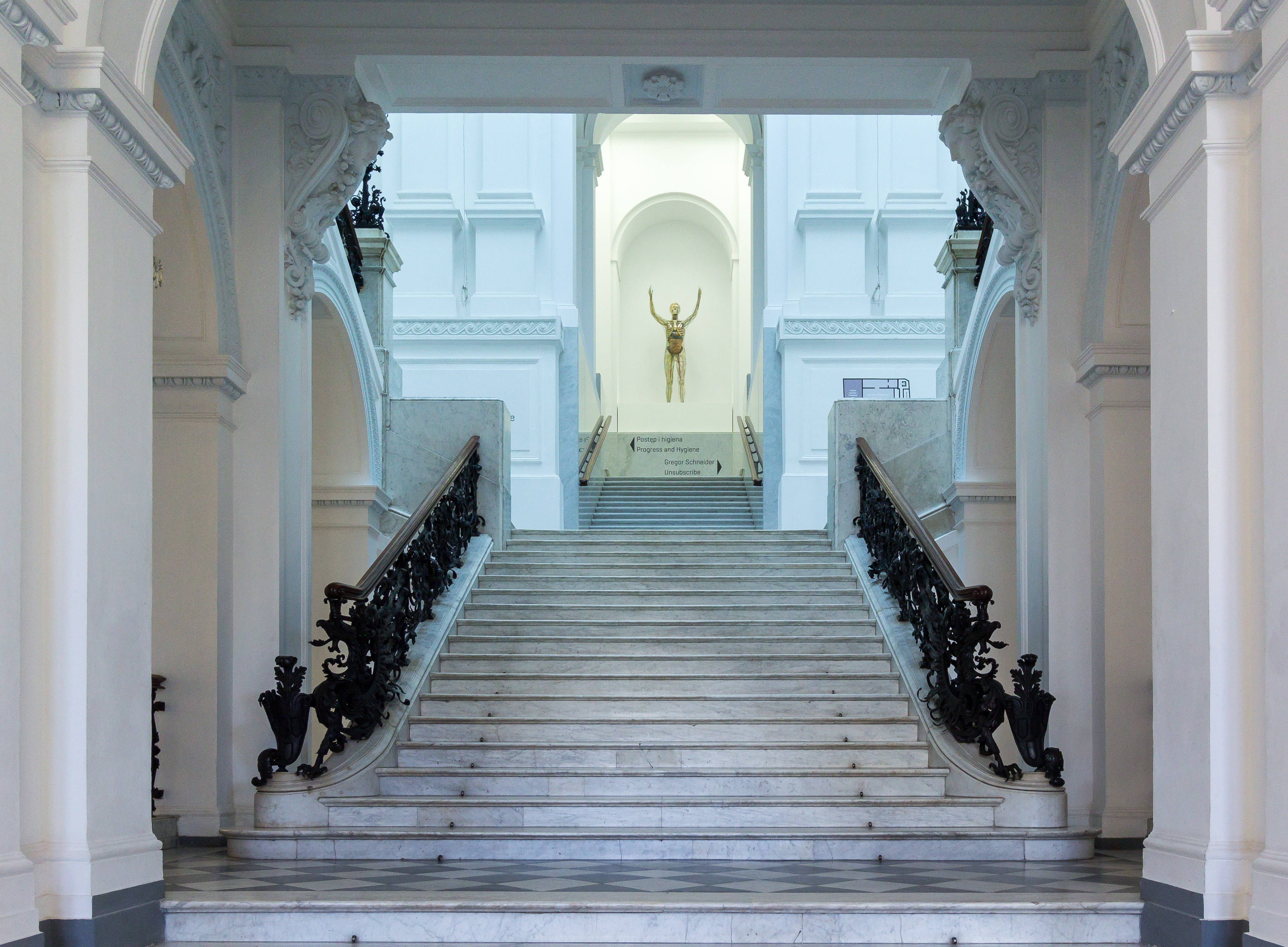 This file was uploaded to Wikimedia Commons by participants of Zachęta do Wikipedii, a GLAM-Wiki event organised at Zachęta - National Gallery of Art as part of a partnership project with Wikimedia Polska. Polski | English | +/−